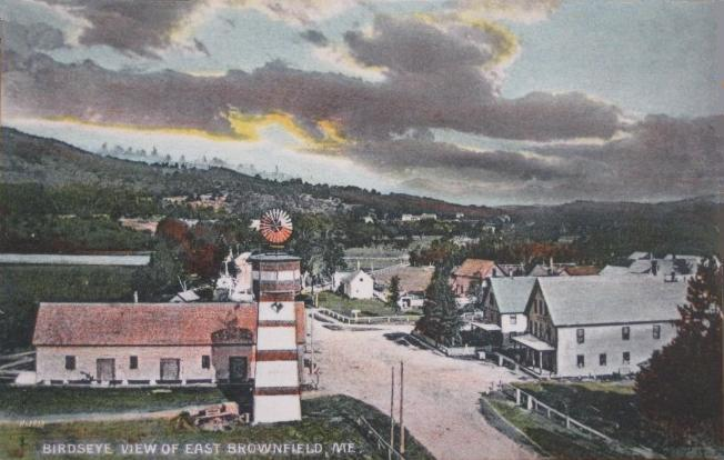 Bird's-eye View of East Brownfield, Maine